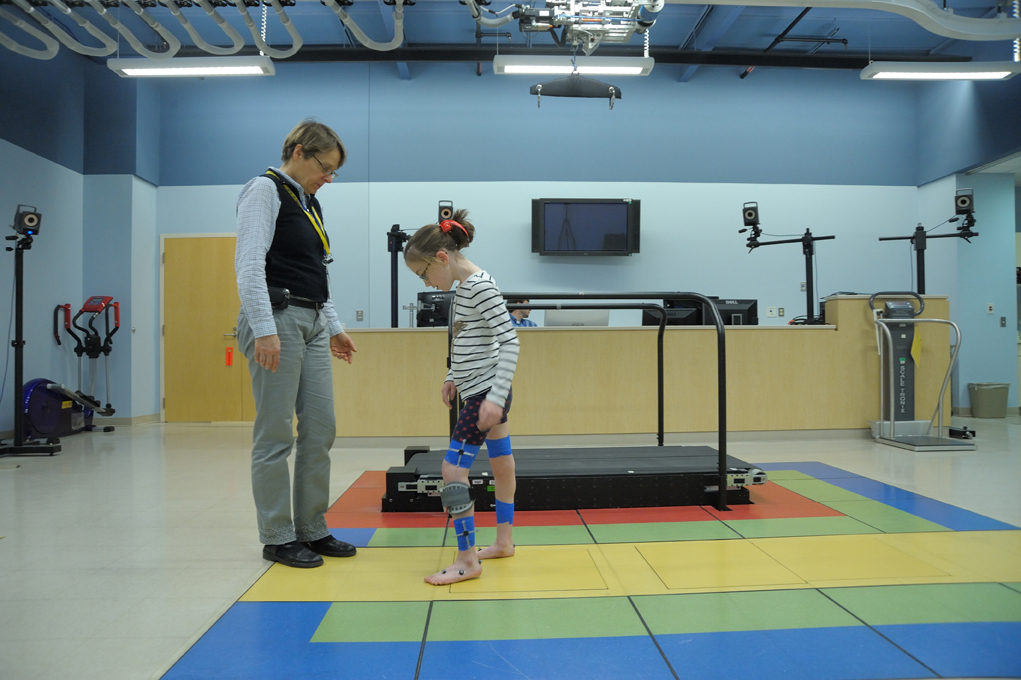 Researchers in the Clinical Center's Rehabilitation Medicine Department (RMD) are studying an electrical stimulation device designed for children with cerebral palsy who suffer from foot drop and tripping when walking. The WalkAide device stimulates the muscle that lifts up the ankle and the foot on the lower leg. In addition to its success in gait improvement, the RMD team found that electrical stimulation reversed some of the leg muscle wasting caused by the disorder and, in several patients, preserve and increased muscle strength.